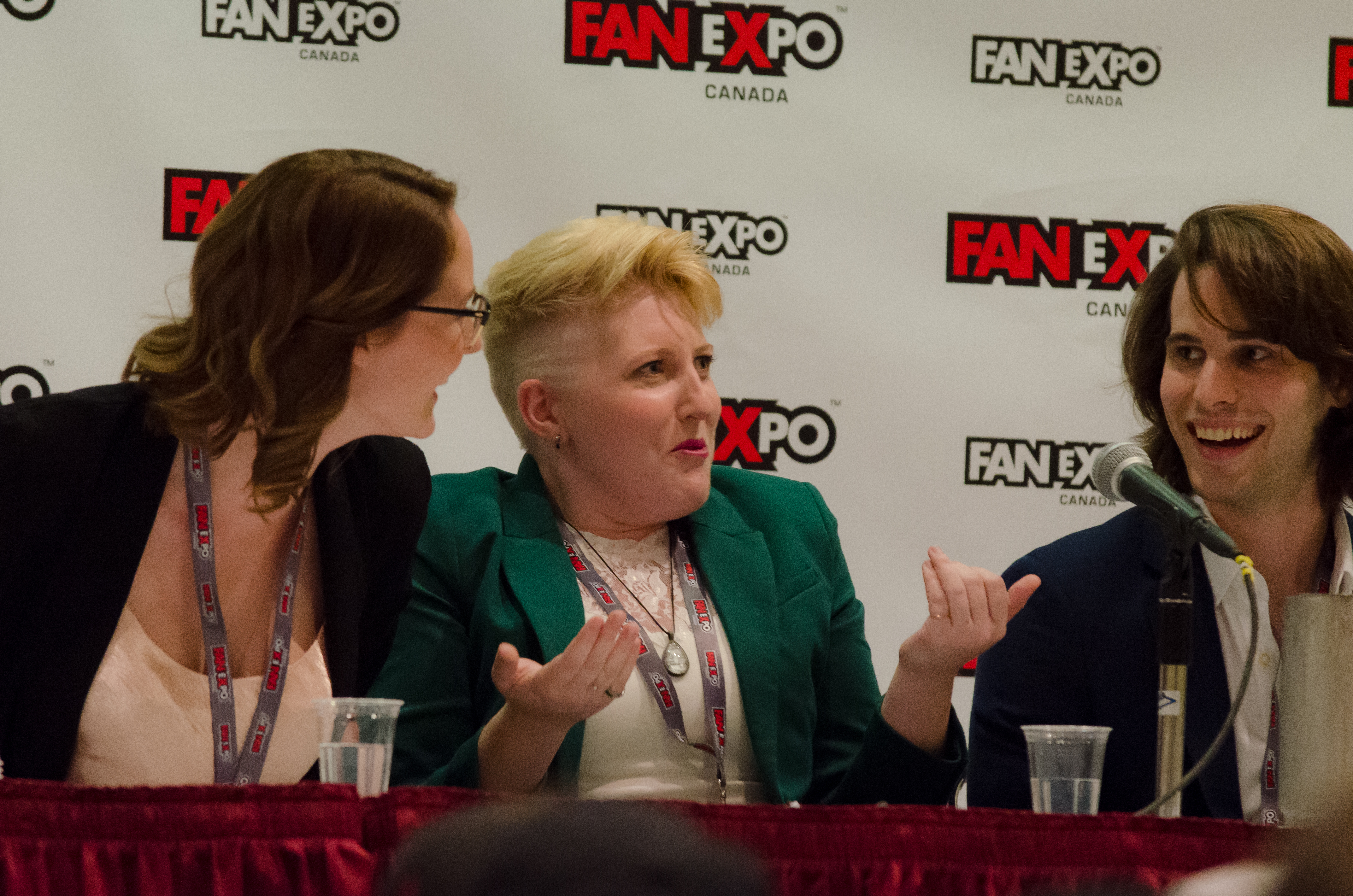 Panel for the webseries Carmilla at Fan Expo Canada in Toronto in 2015